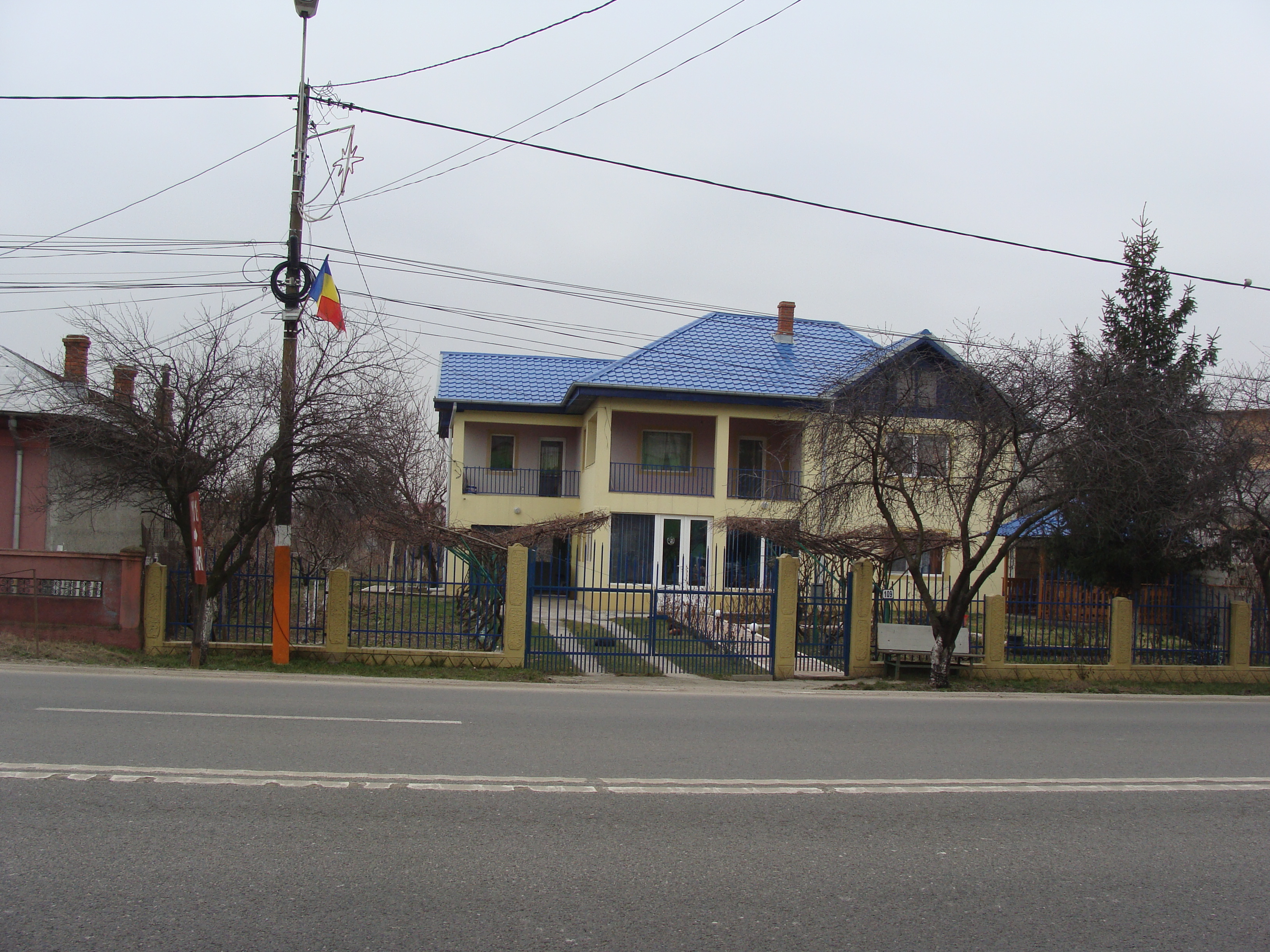 Mihăileşti, Giurgiu County